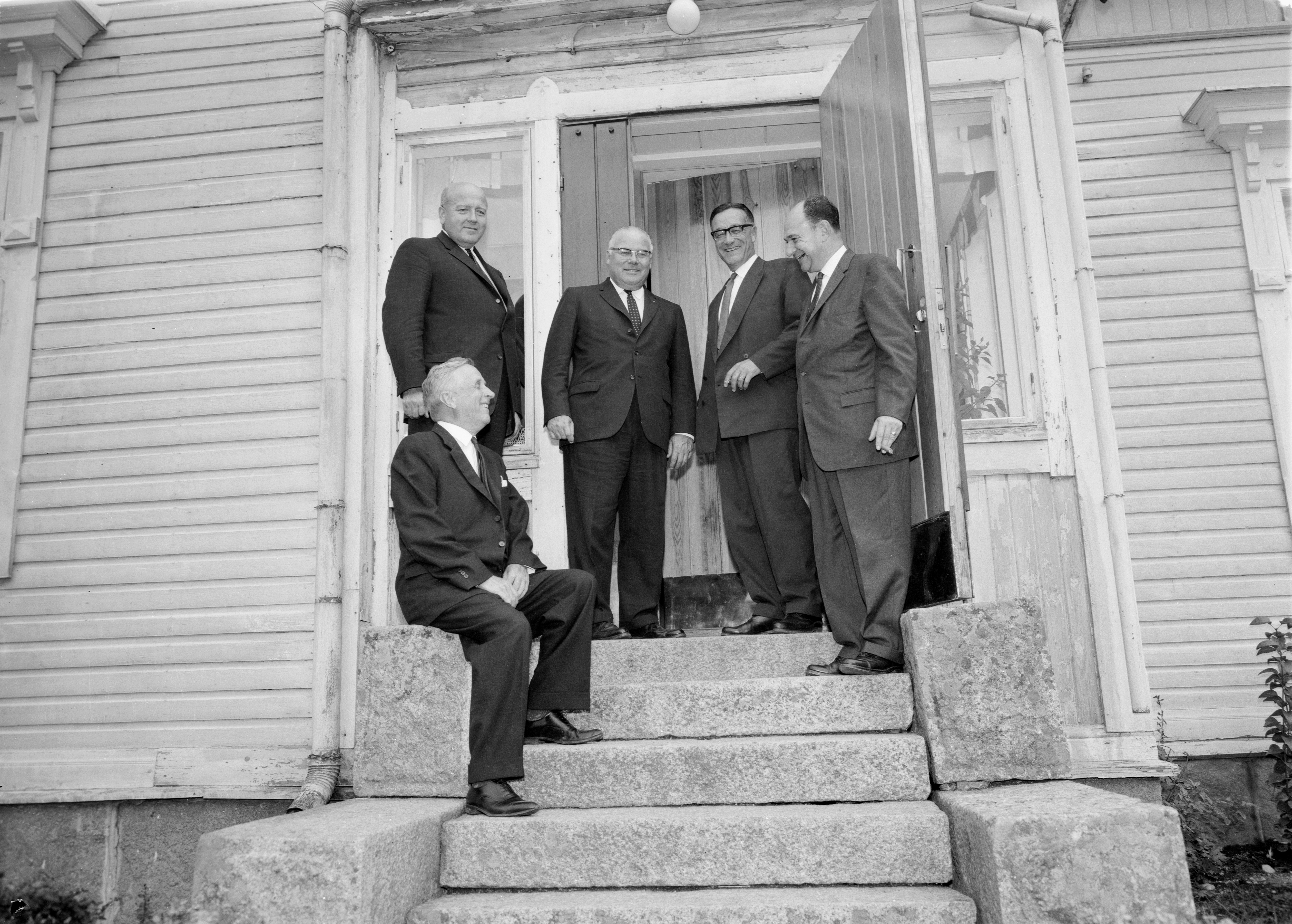 Photograph of the Canadian minister of agriculture Harry Hays during his visit to Finland. Photographed at the farm of Veikko Ihamuotila (board chairman of MTK) in Hista, Espoo. From left to right: executive Eero J. Korpela, S. Williams, minister Harry Hays, Veikko Ihamuotila and Canadian ambassador John Harrison Cleveland.